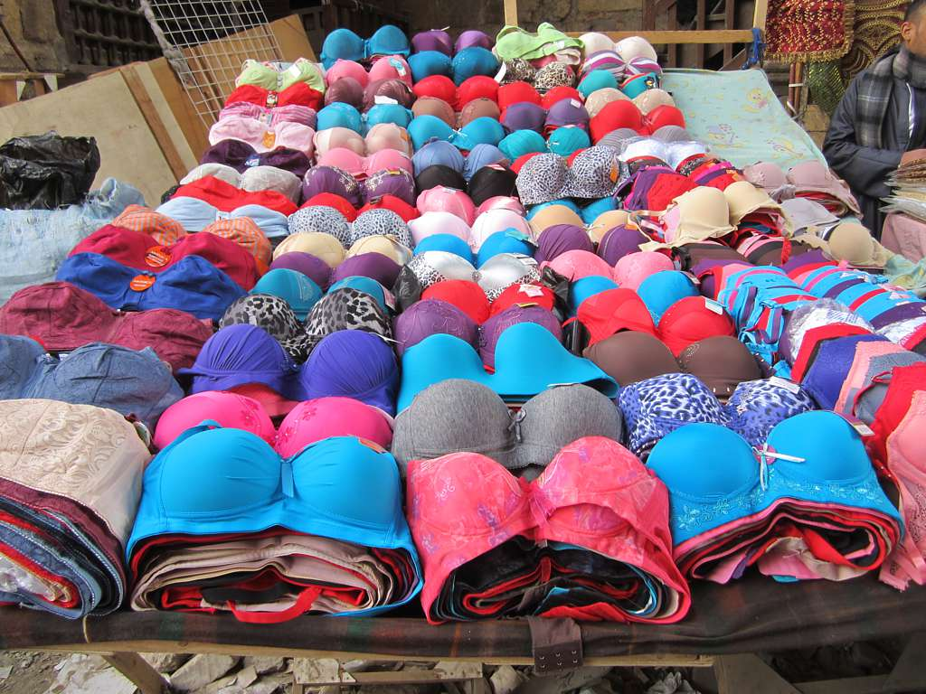 A colorful section of brassieres for sale in the old Islamic quarter of Cairo, Egypt.